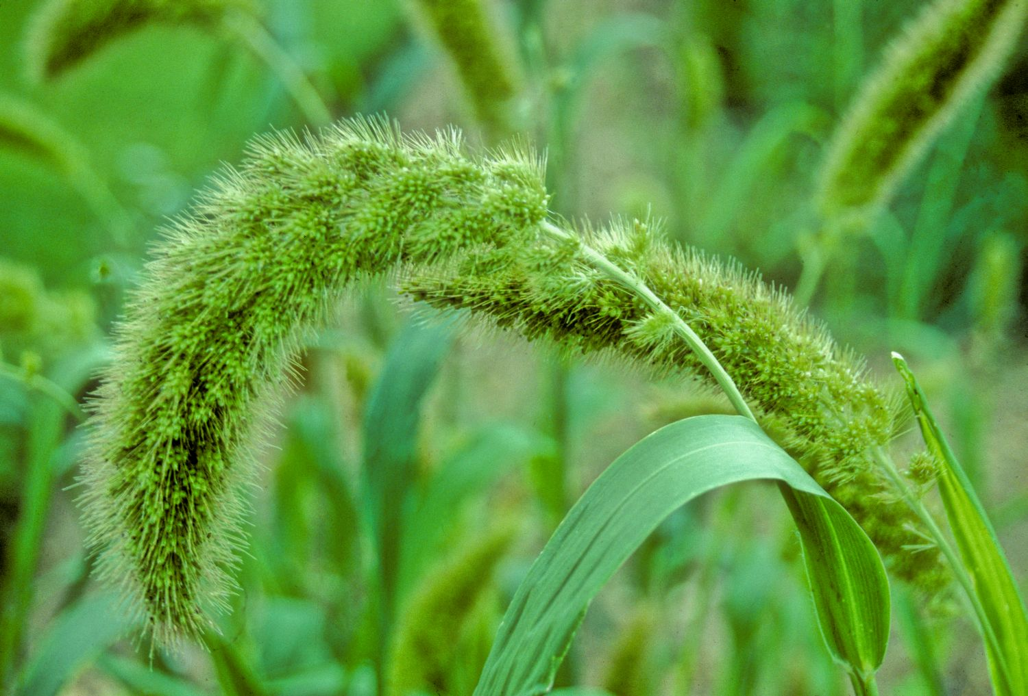 Setaria italica Credit: Mark Nesbitt and Delwen Samuel